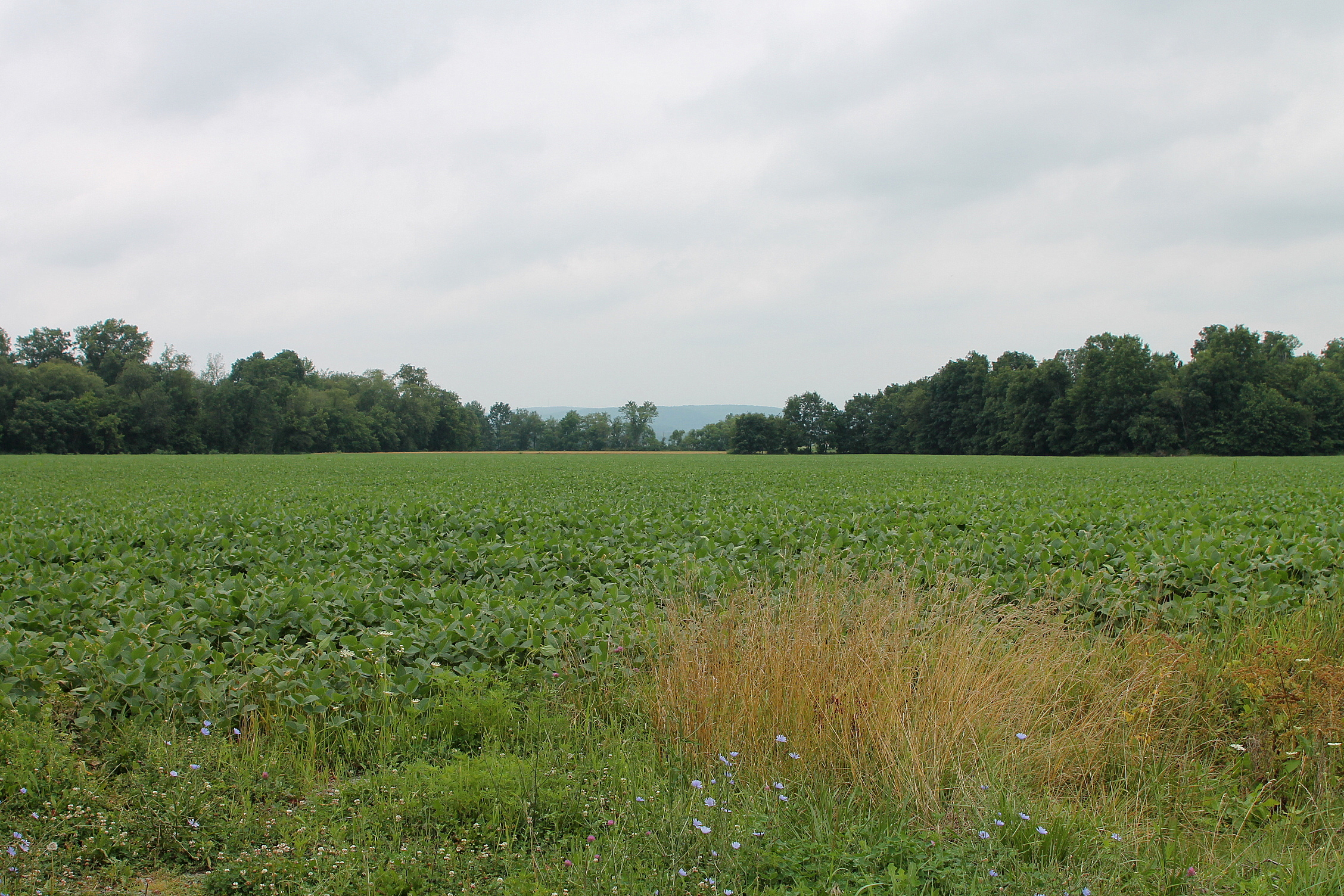 Field (corn or sorghum) in Anthony Township, Montour County, Pennsylvania. The Muncy Hills are the blue hills on the horizon.